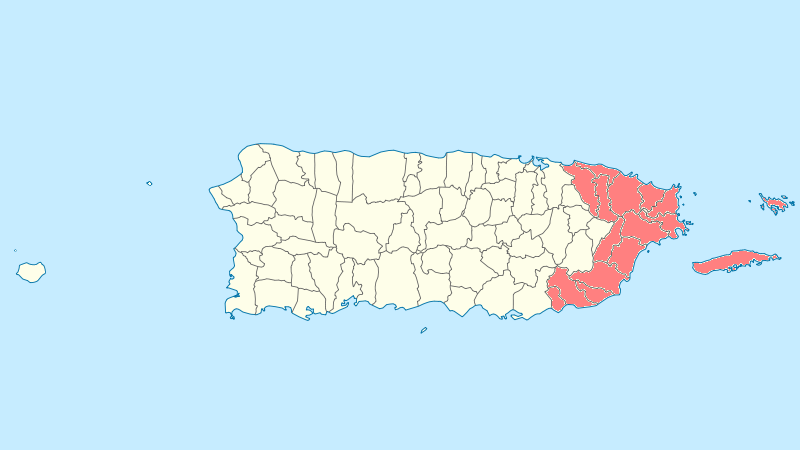 Map of Puerto Rico highlighting the municipalities included in the list article National Register of Historic Places listings in eastern Puerto Rico. The delineation of an "eastern region" here does not correspond to any specific definition of such a region outside Wikipedia. (Note: Uploader believes this file is out of scope for the Wikimedia Commons because it has no educational value beyond illustrating a specific Wikipedia editorial decision.)